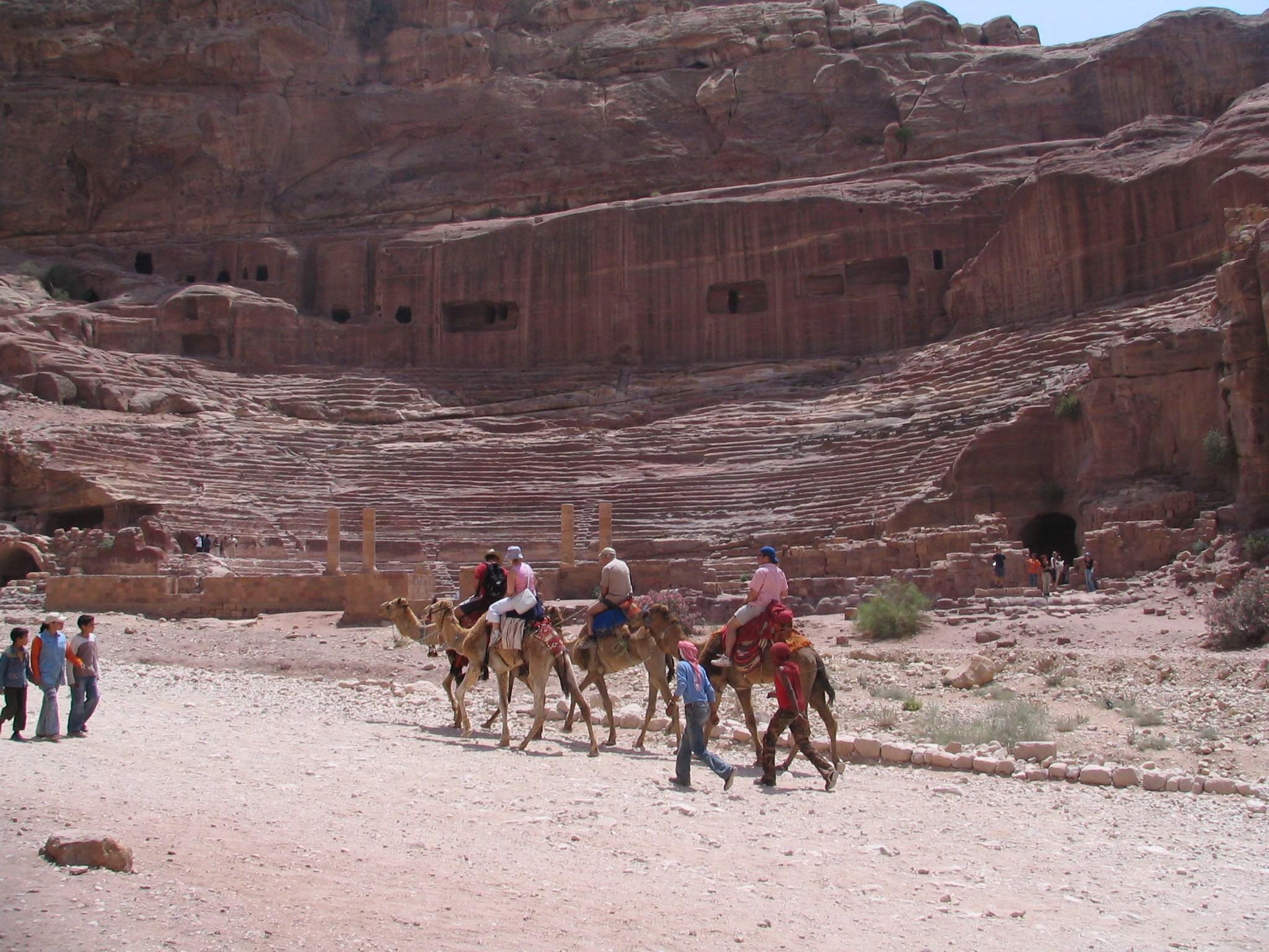 The Amphitheatre of Petra. Photo was taken by bpavacic in Petra, Jordan on 26 May 2006.